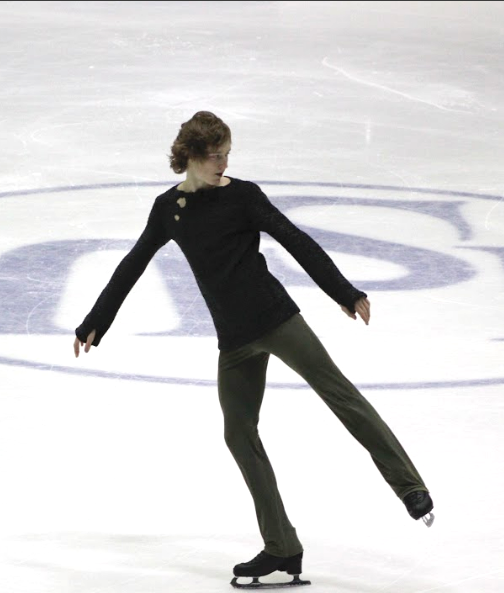 Alexander Samarin in 2015